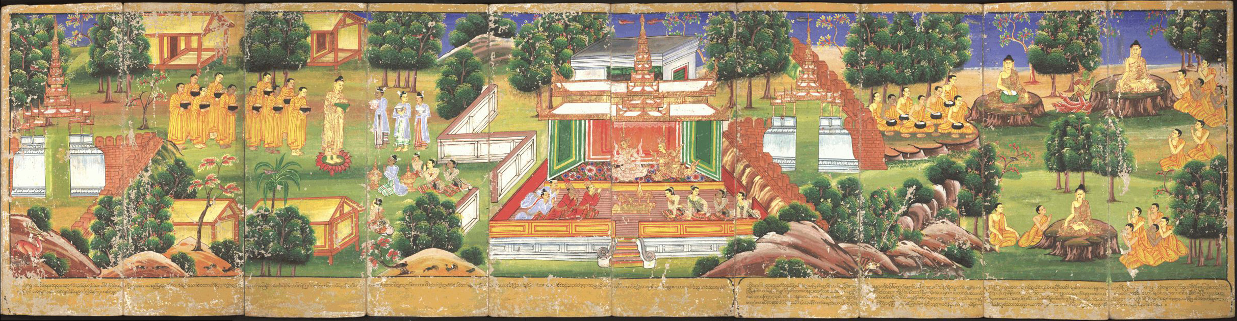 Panorama made from page 3 to 12 of an 18th century Burmese watercolour parabeik (picture book) showing scenes from the life of Gautama Buddha. Photoshop was used to combine a scan of pages 3 and 4 with another scan of pages 5 to 8 and another of pages 9 to 12.